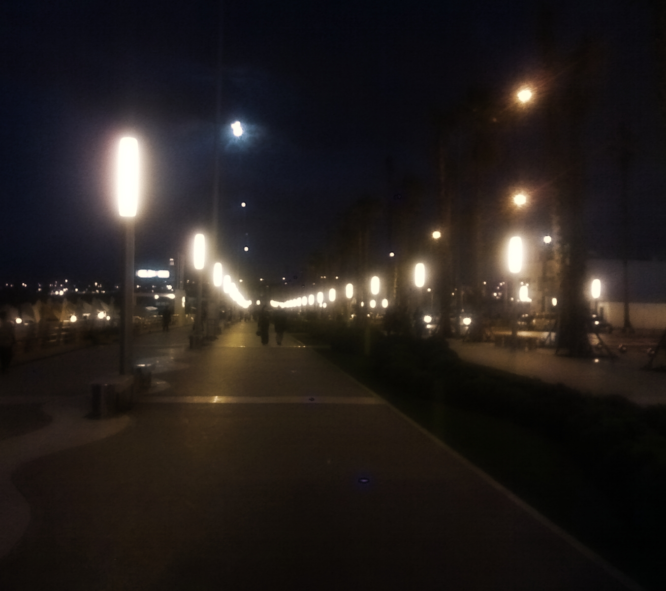 Corniche Ain Diab by night, Casablanca